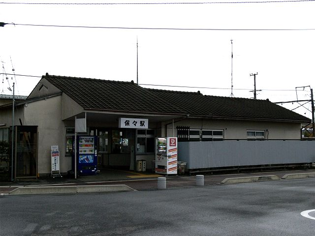 Hobo Station